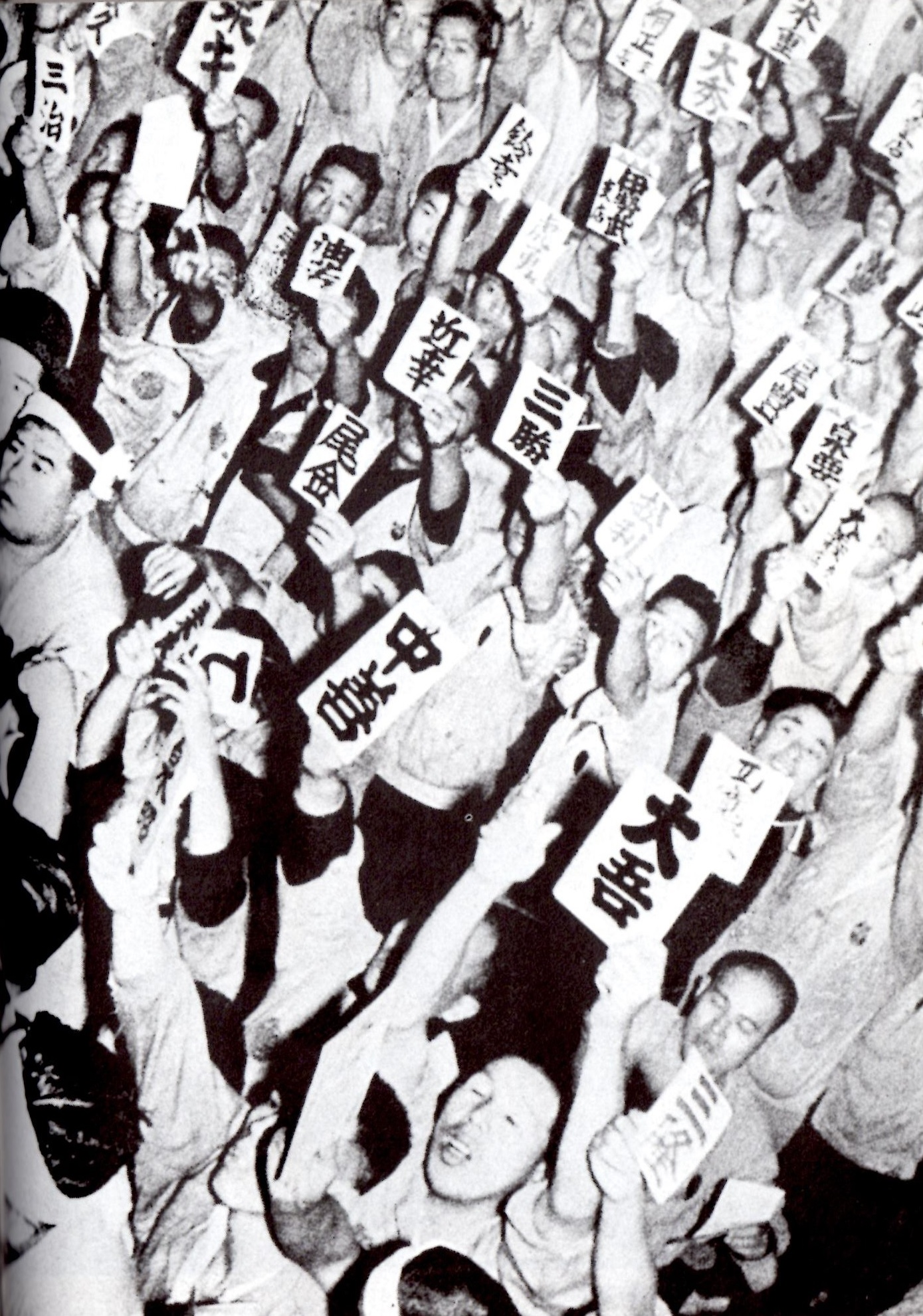 "Morning of the life (a riverside fish market)"